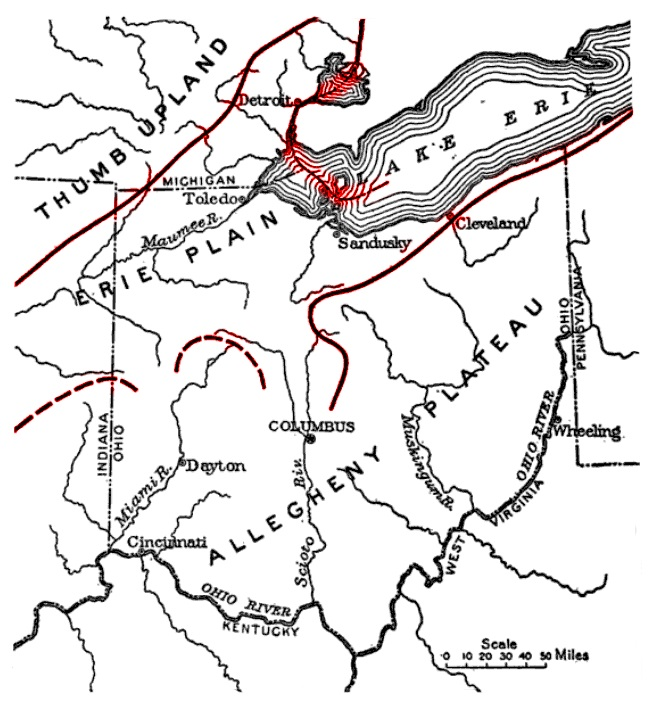 Map of Ohio, showing the Erie Plain, Portage Escarpment and Marshall Escarpment (in red), and the Appalachian Plateau.